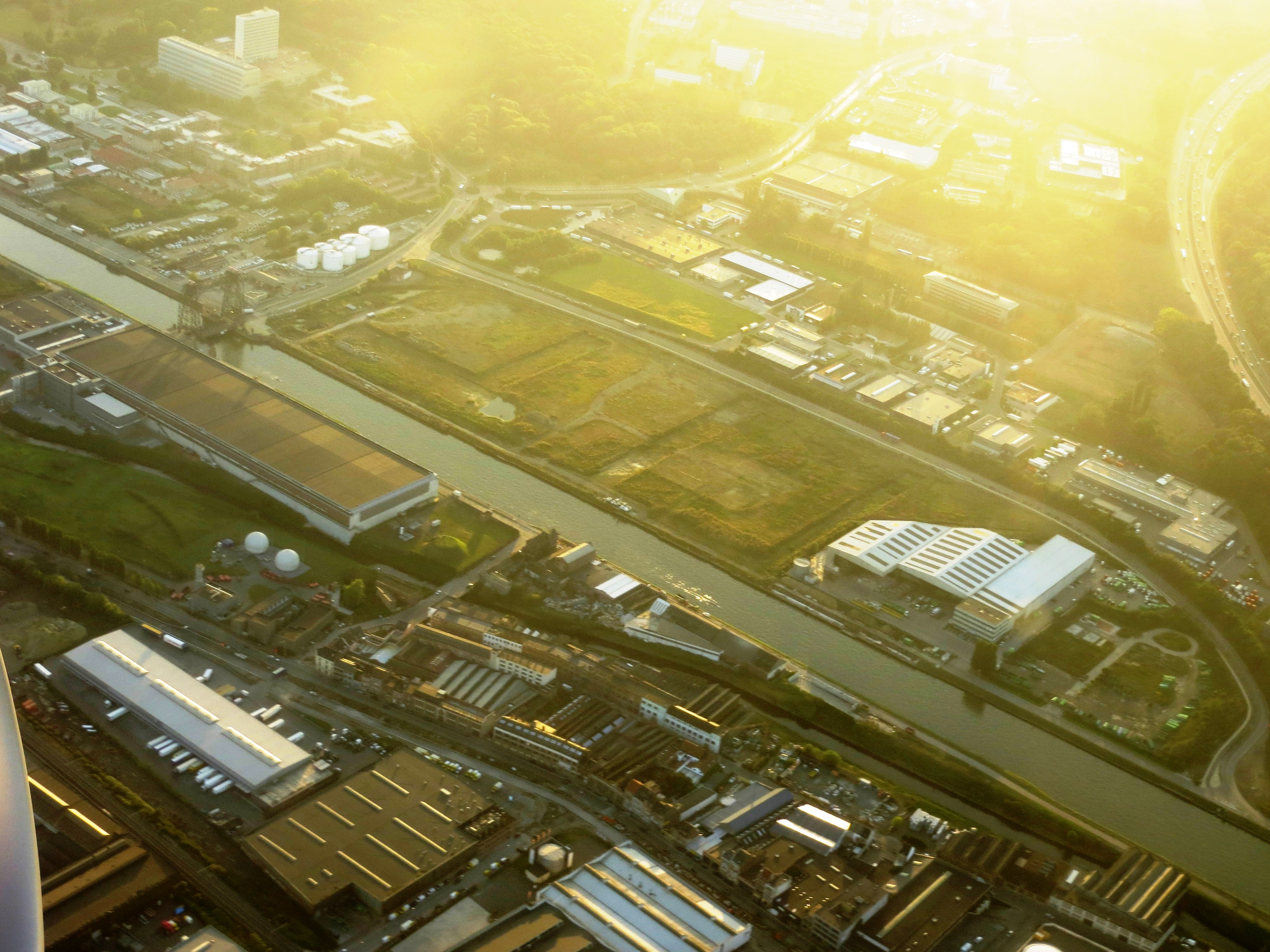 Aerial view over the Zaventeem area of northern Brussels, around the Brussels airport. Belgium.